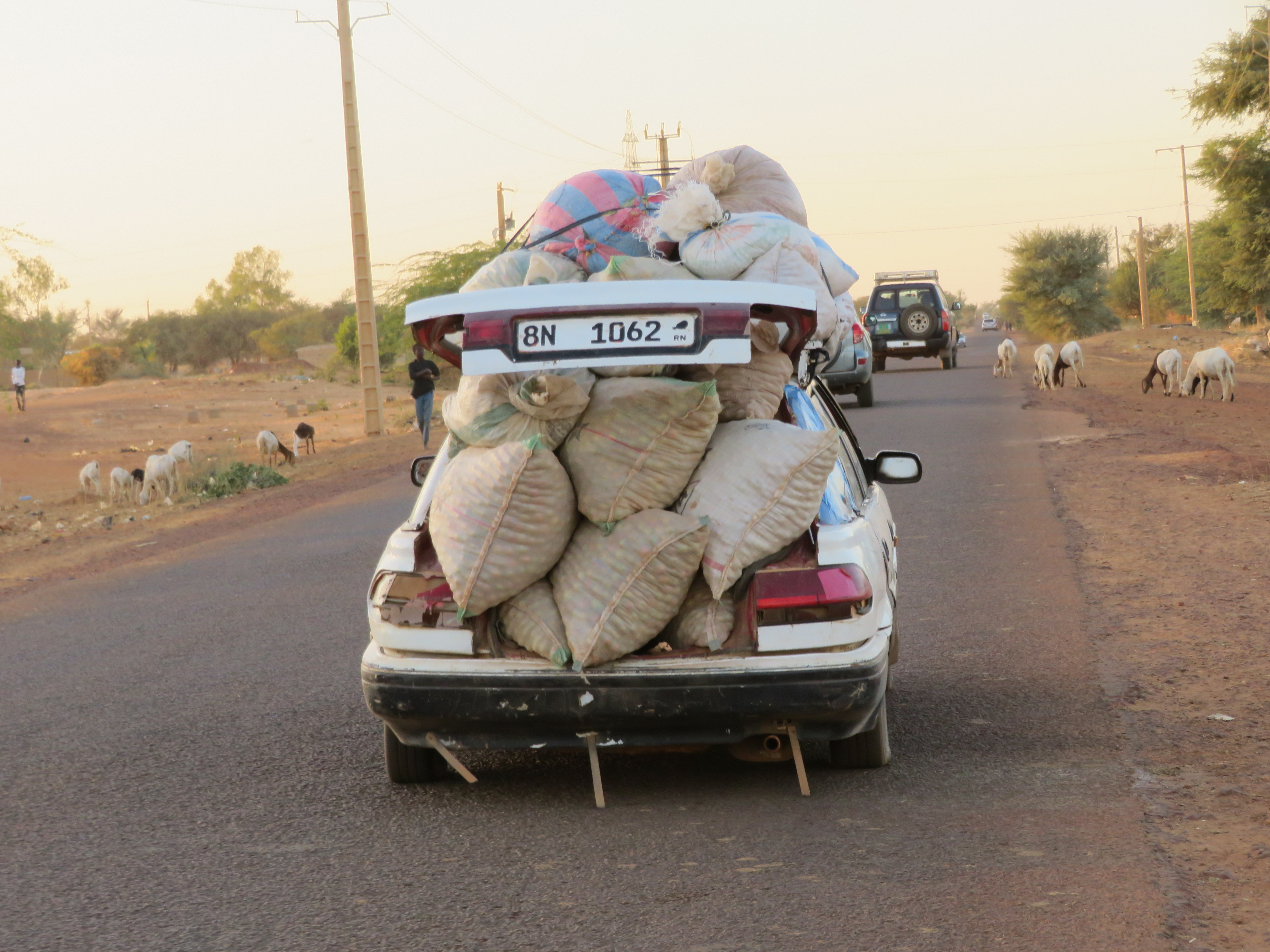 modes of transport This is an image with the theme "Africa on the Move or Transport" from: Niger